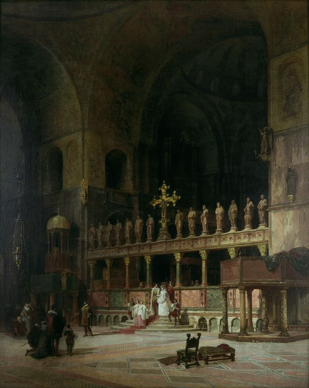 Oil on canvas: Interior of St. Mark's, Venice